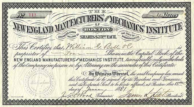 Stock certificate of the New England Manufacturers' and Mechanics' Institute of Boston.